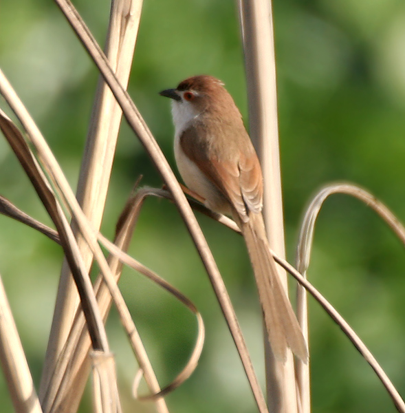 Yellow-eyed Babbler Chrysomma sinense at Hodal, Faridabad, Haryana, India.